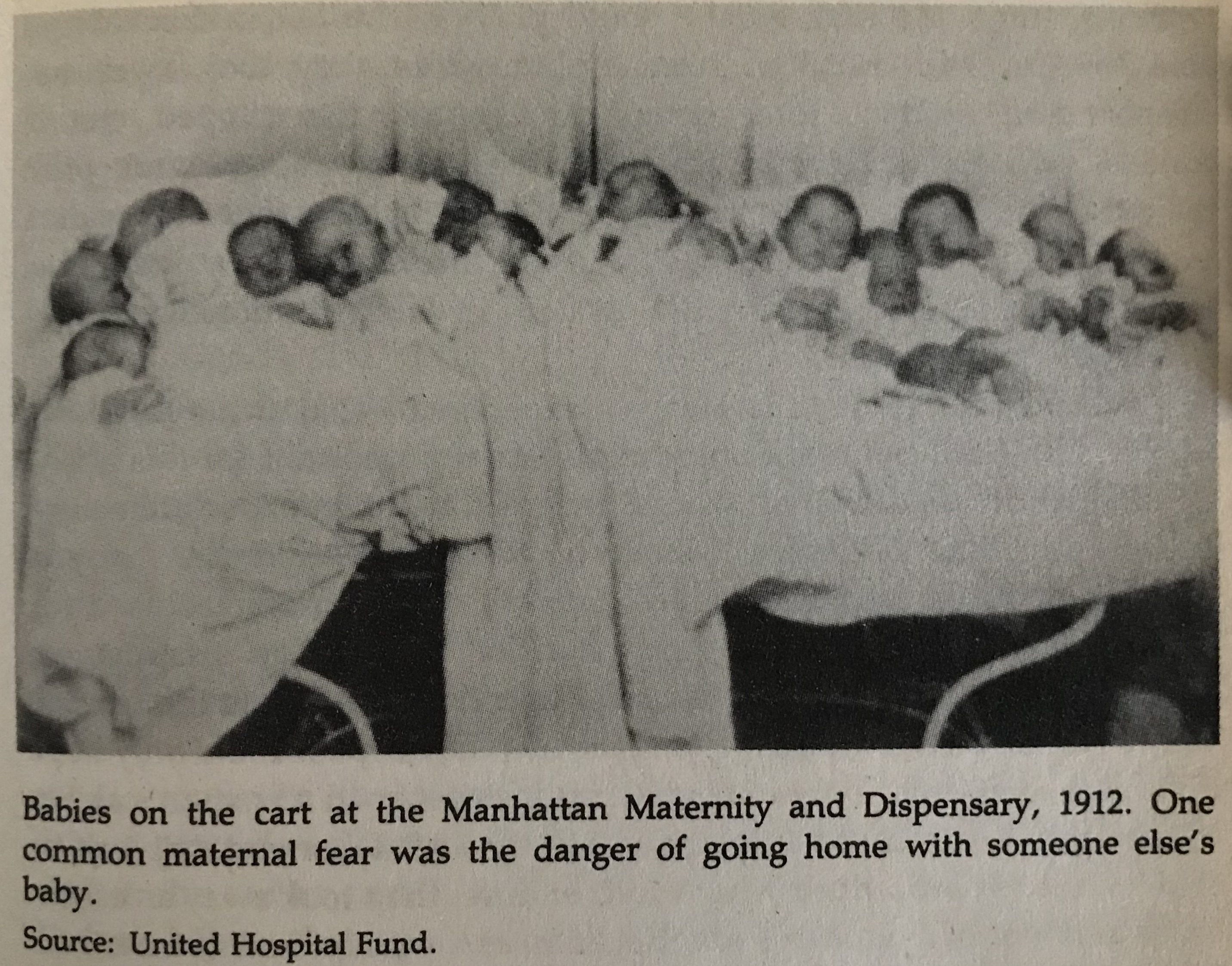 photo of babies lined up on a cart in a maternity hospital